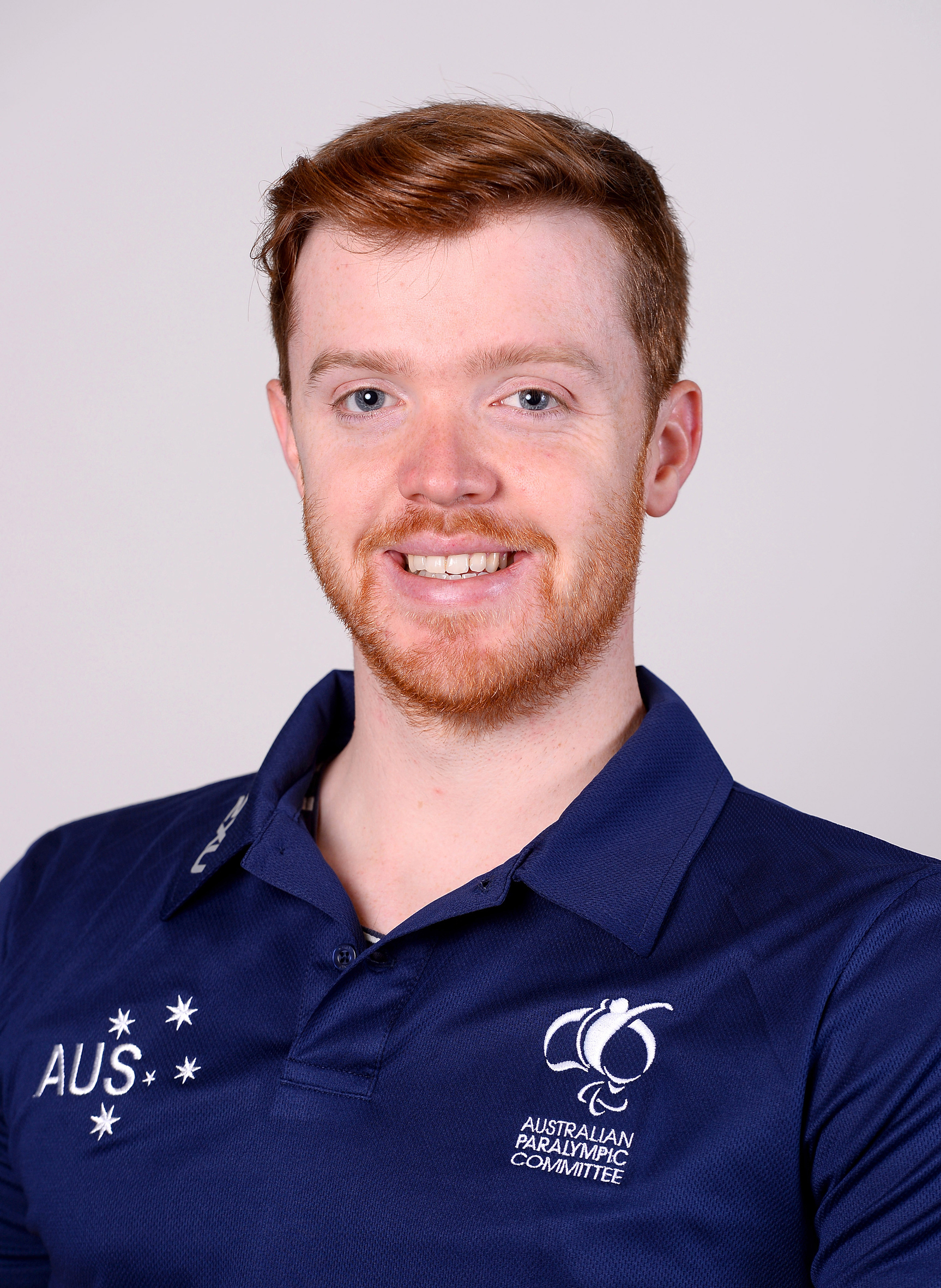 Portrait photograph of Samuel Carter taken at team processing session for shadow members of 2016 Australian Paralympic team